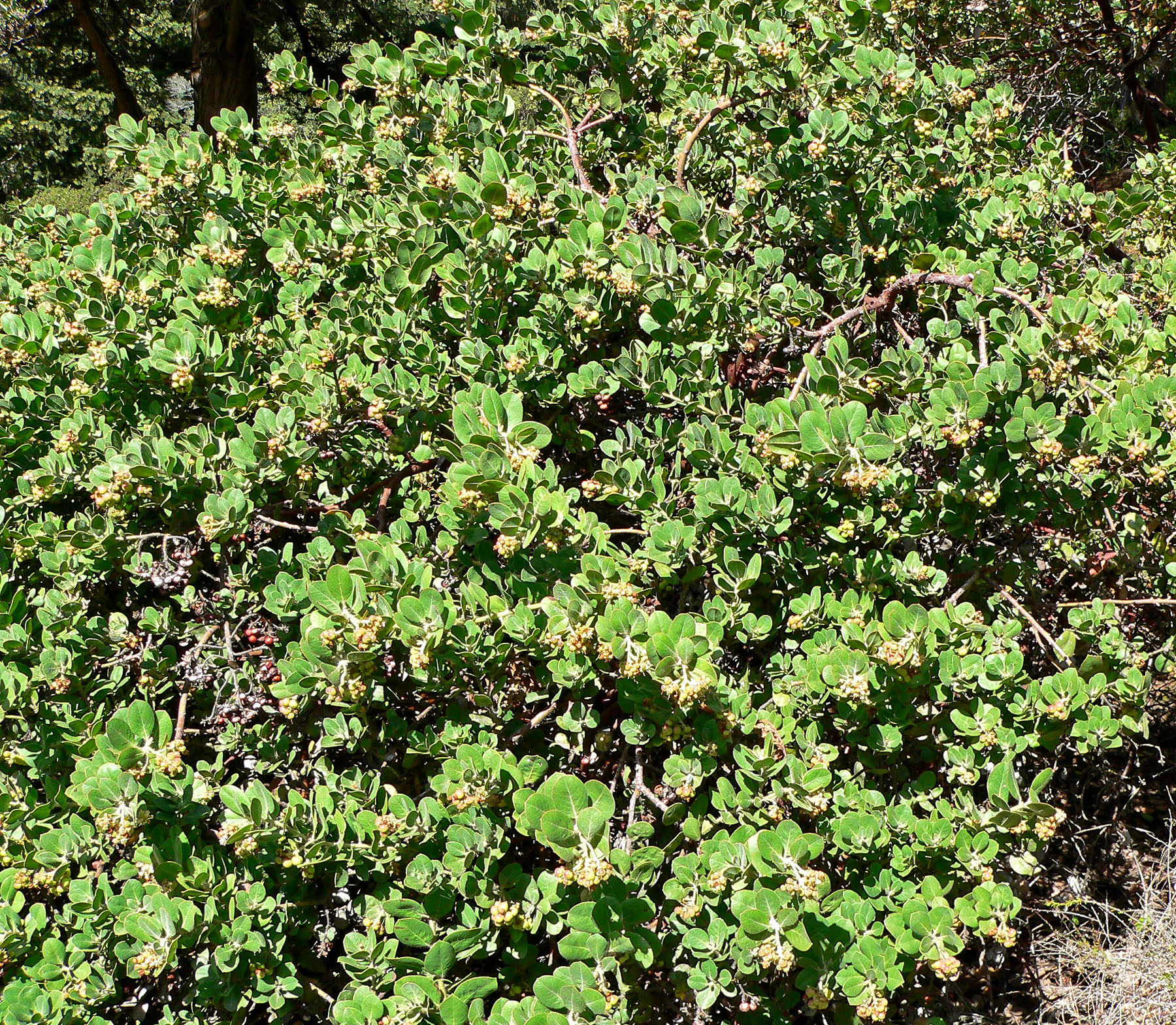 Photo of Arctostaphylos confertiflora at the Regional Parks Botanic Garden, Berkeley, California